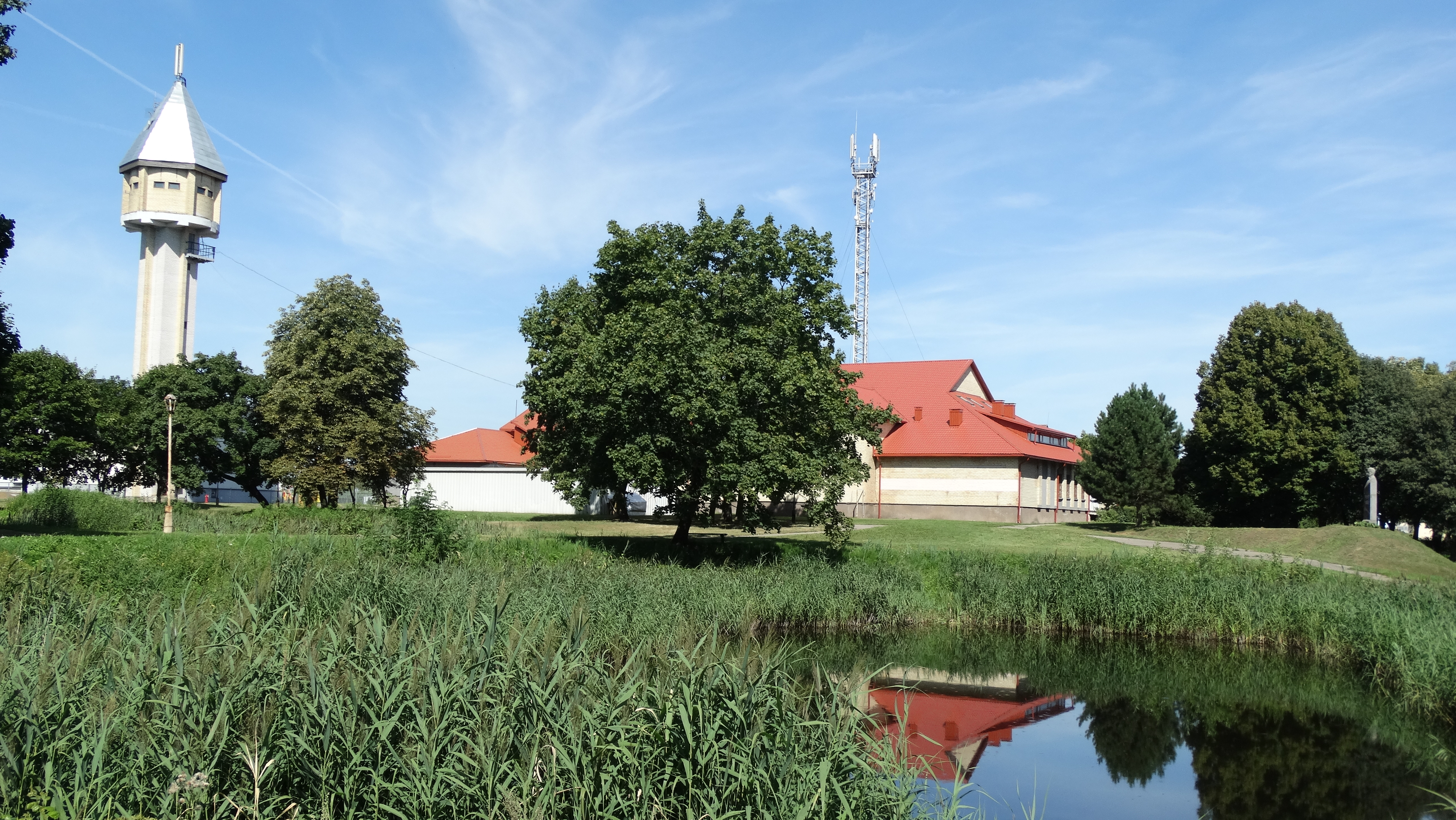 Lapės, Kaunas district, Lithuania